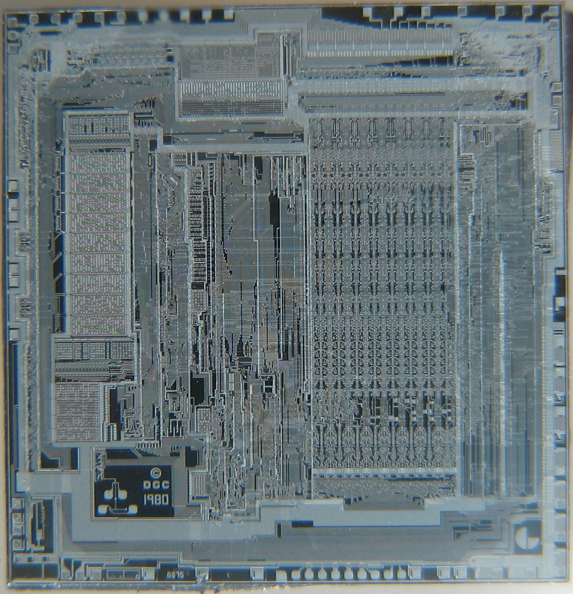 Data General microEclipse microprocessor